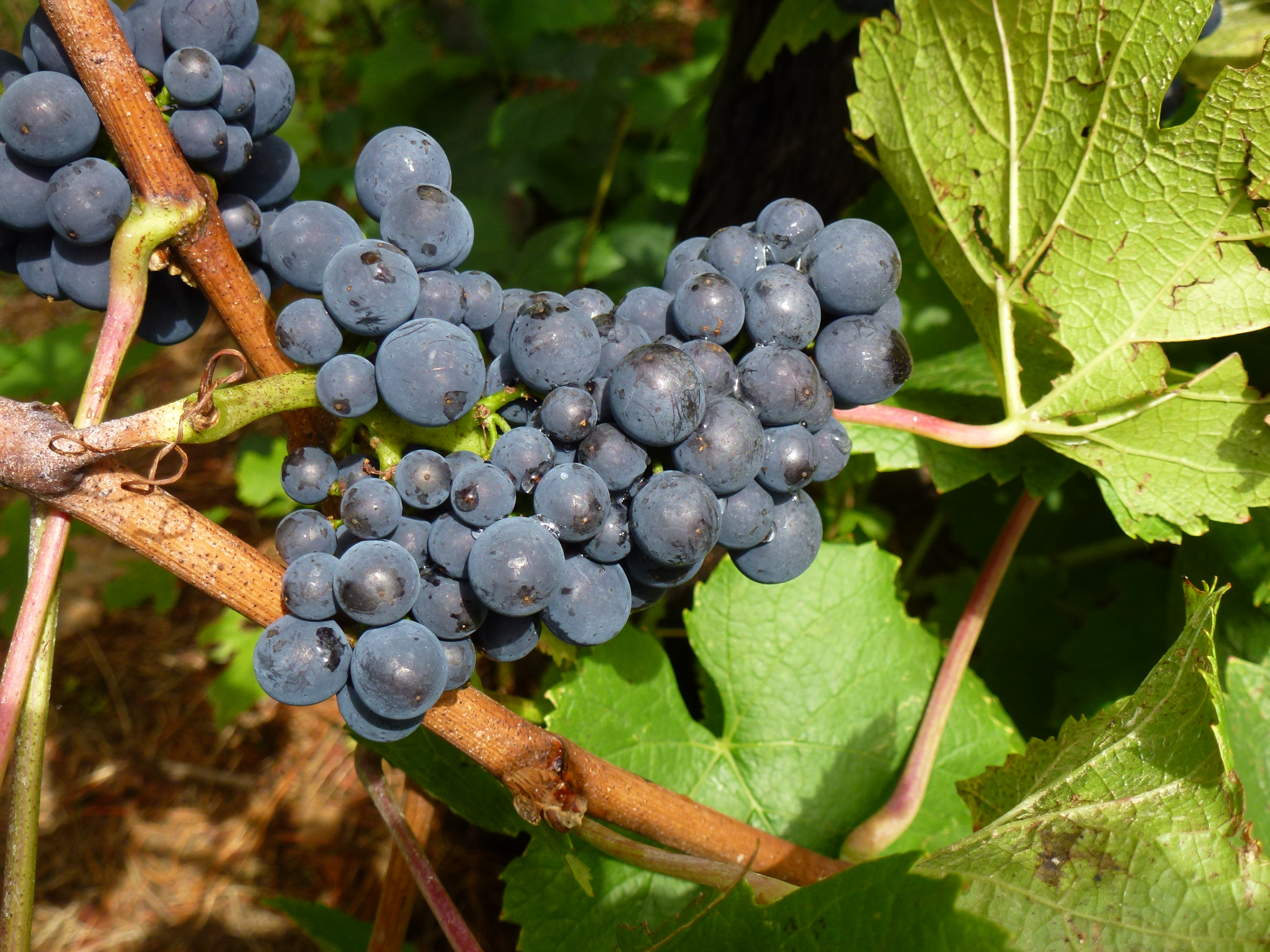 Pinot Noir. Main Ridge Estate vineyard, Mornington Peninsula Victoria, Australia.